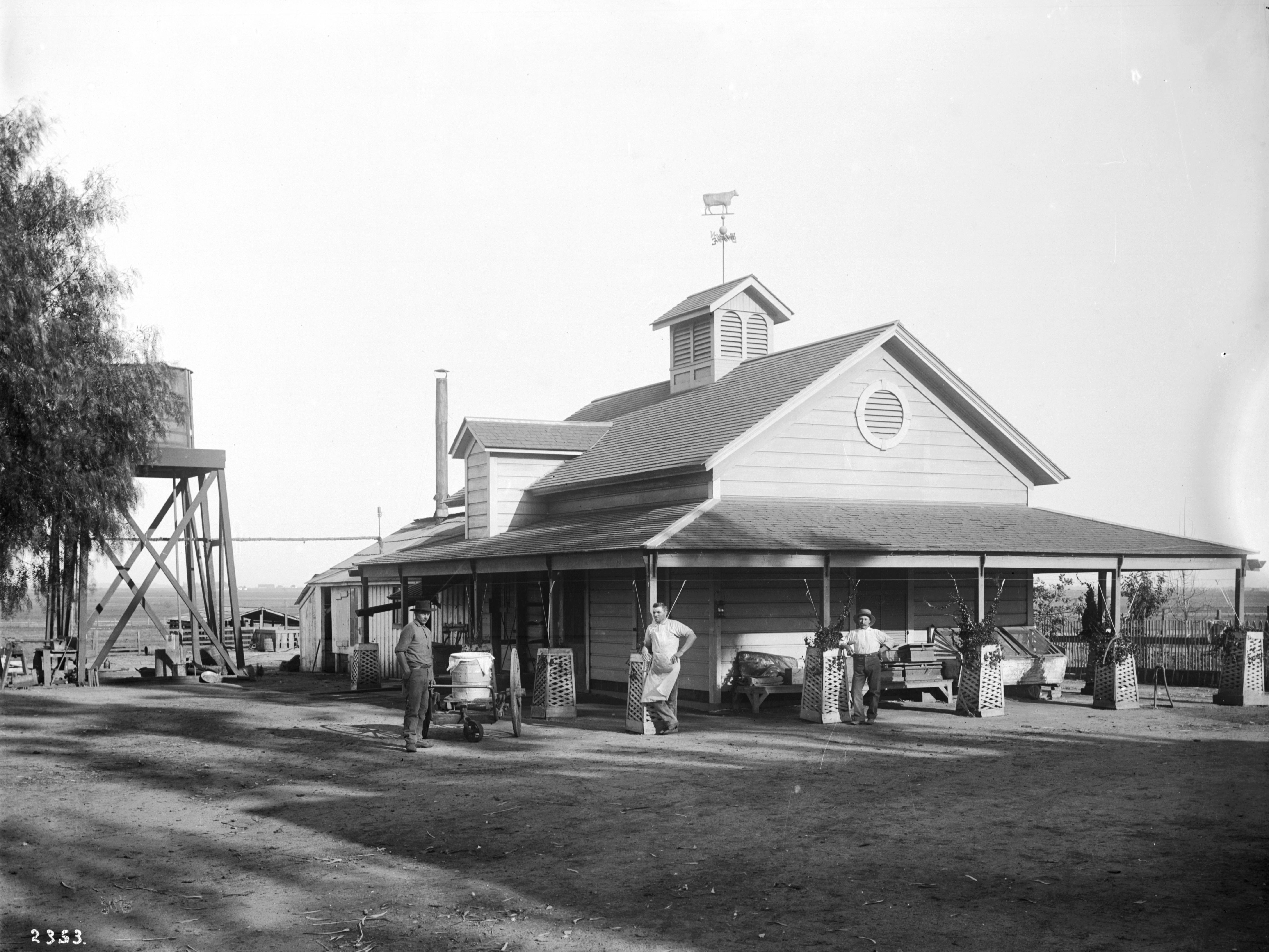 Creamery on Hammel and Denker ranch, Beverly Hills, ca.1905 Photograph of three men standing in front of the creamery on the Hammel and Denker ranch, Beverly Hills, ca.1905. Trellis planting boxes surround each of the wooden posts of the covered porch of the wooden creamery. A directional windvane in the shape of a cow is on the top of the roof. A water tower is visible behind the building. Another ranch building is visible in the background. Call number: CHS-2353 Filename: CHS-2353 Coverage date: circa 1905 Part of collection: California Historical Society Collection, 1860-1960 Format: glass plate negatives Type: images Geographic subject (city or populated place): Beverly Hills Repository name: USC Libraries Special Collections Accession number: 2353 Microfiche number: 1-78-13 Archival file: chs_Volume148/CHS-2353.tiff Part of subcollection: Title Insurance and Trust, and C.C. Pierce Photography Collection, 1860-1960 Repository address: Doheny Memorial Library, Los Angeles, CA 90089-0189 Geographic subject (country): USA Format (aacr2): 2 photographs : photonegative, glass photonegative, b&w ; 10 x 13 cm., 21 x 26 cm. Rights: Digitally reproduced by the USC Digital Library; From the California Historical Society Collection at the University of Southern California Subject (adlf): agricultural sites Project: USC Repository Contributing entity: California Historical Society Date created: circa 1905 Publisher (of the digital version): University of Southern California. Libraries Format (aat): negatives (photographic); photographs Geographic subject (state): California Subject (file heading): Los Angeles County -- Beverly Hills -- Agriculture Legacy record ID: chs-m5410; USC-1-1-1-5523 Access conditions: Send requests to address or e-mail given. Phone (213) 821-2366; fax (213) 740-2343. Geographic subject (county): Los Angeles Subject (lcsh): Agriculture; Ranches; Creameries